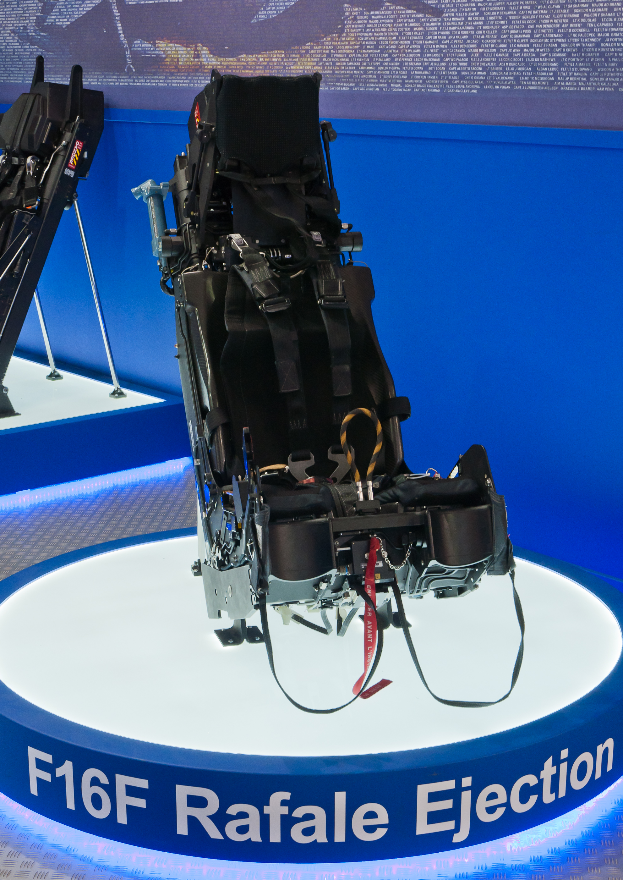 Martin-Baker Mk.F16F ejection seat for Dassault Rafale on display at Paris Air Show 2013